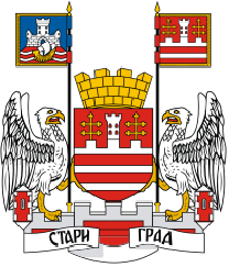 Coat of Arms of the city and municipality of Stari Grad, Serbia